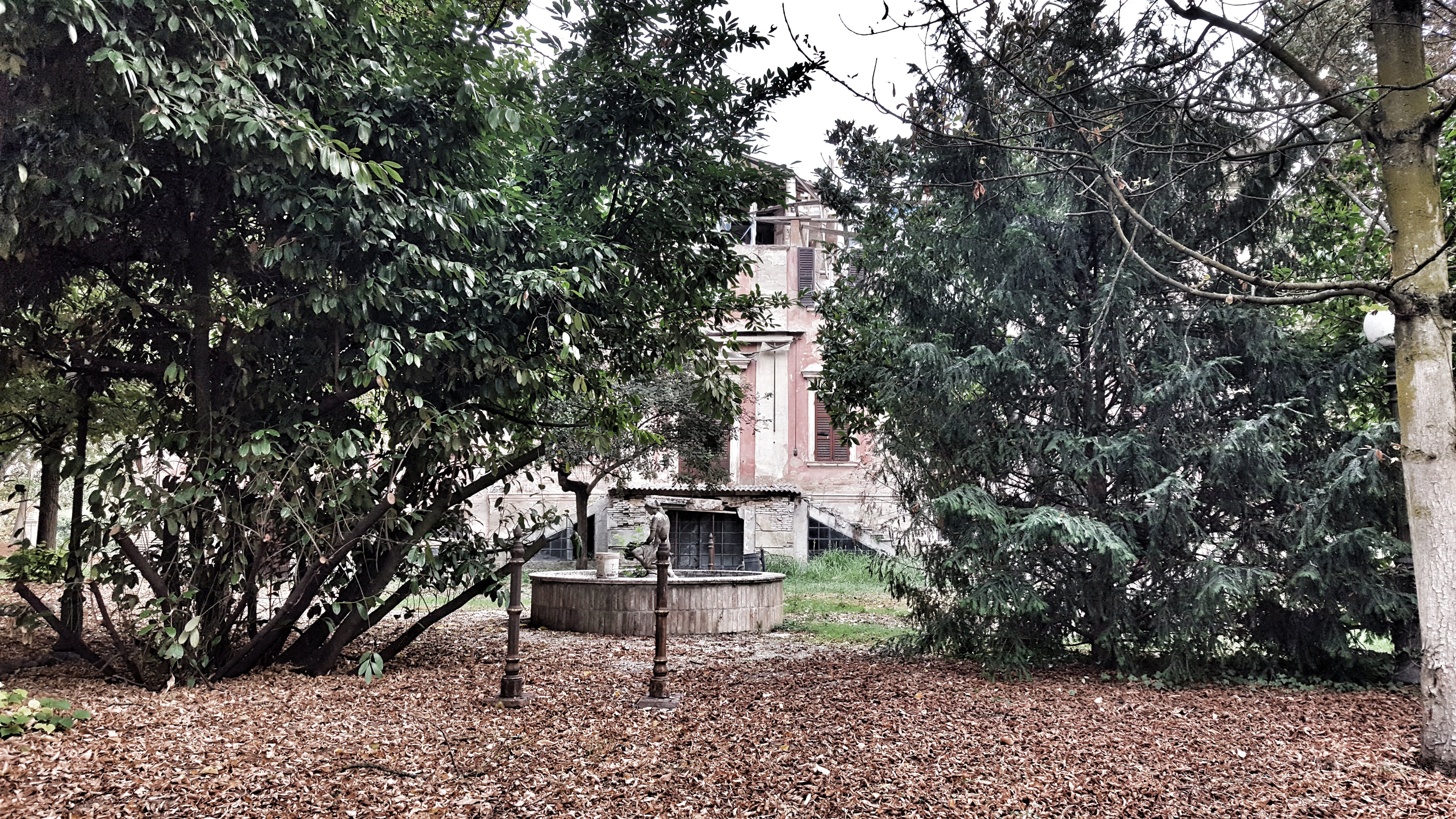 This is a photo of a monument which is part of cultural heritage of Italy.